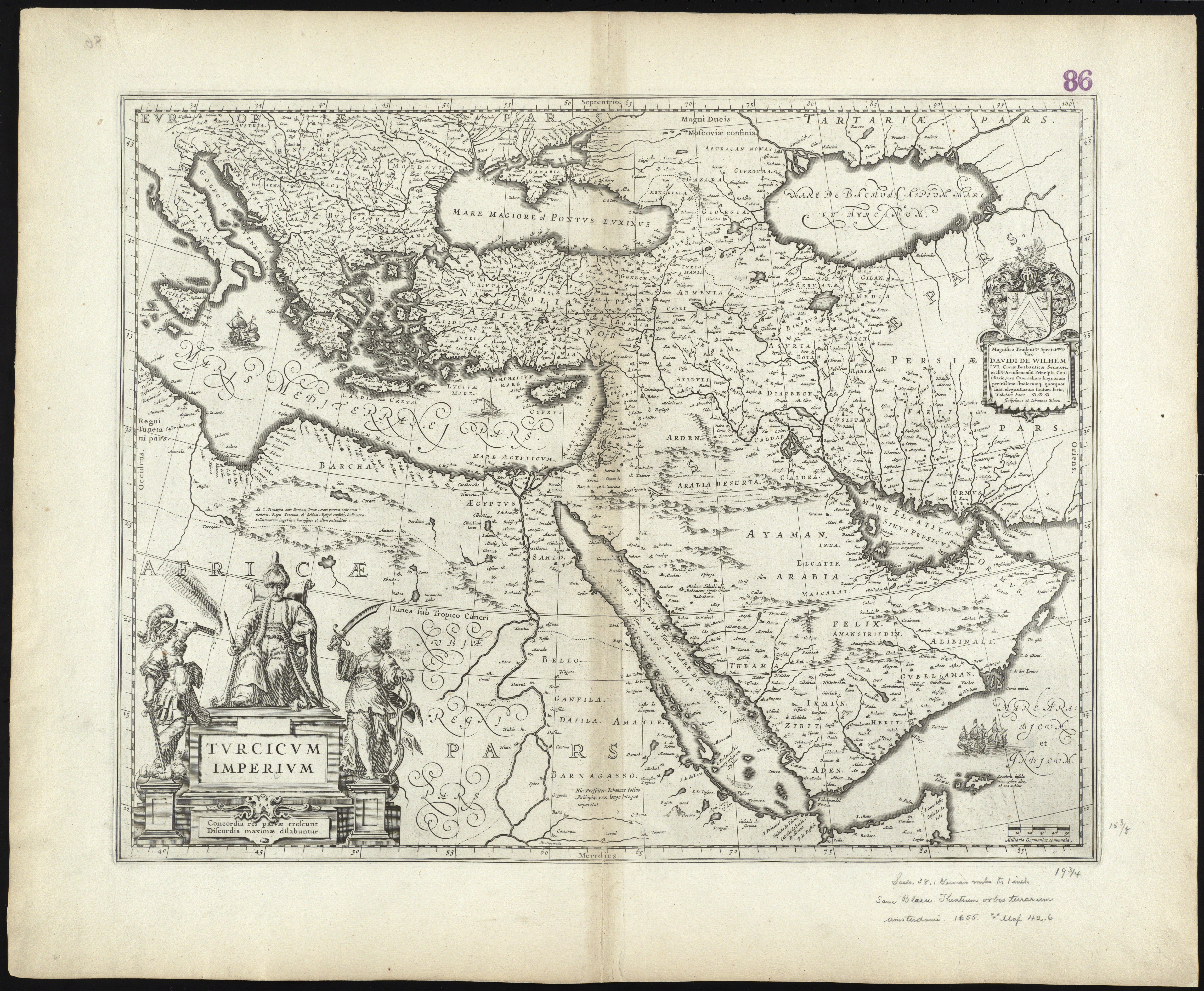 Zoom into this map at . Author: Blaeu, Willem Janszoon Publisher: Blaeu, Joan Date: 1630 Location: Middle East, Turkey Dimensions: 40 x 51 cm. Scale: [ca. 1:11,000,000] Call Number: G1015 .C65 1630